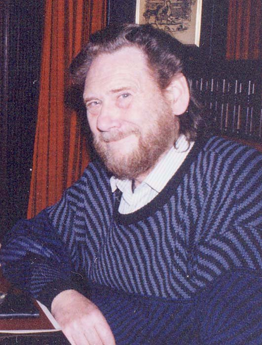 Danish psychologist Børge Prien of Copenhagen, as released by image owner FamSACPlace: A restaurant in Copenhagen, Denmark